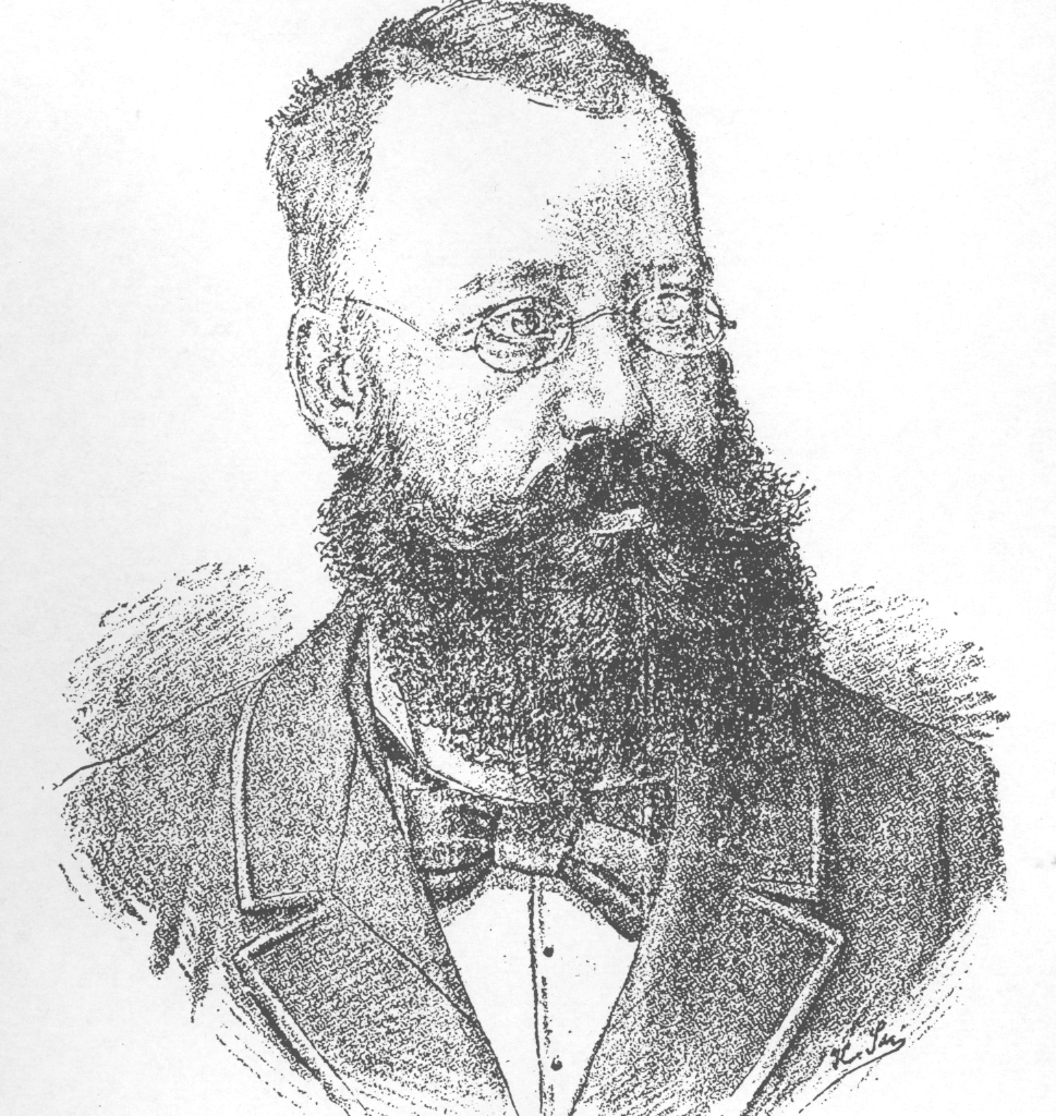 A drawing showing Prof. M. Obhlidal, one of the most active Austrian Volapükists